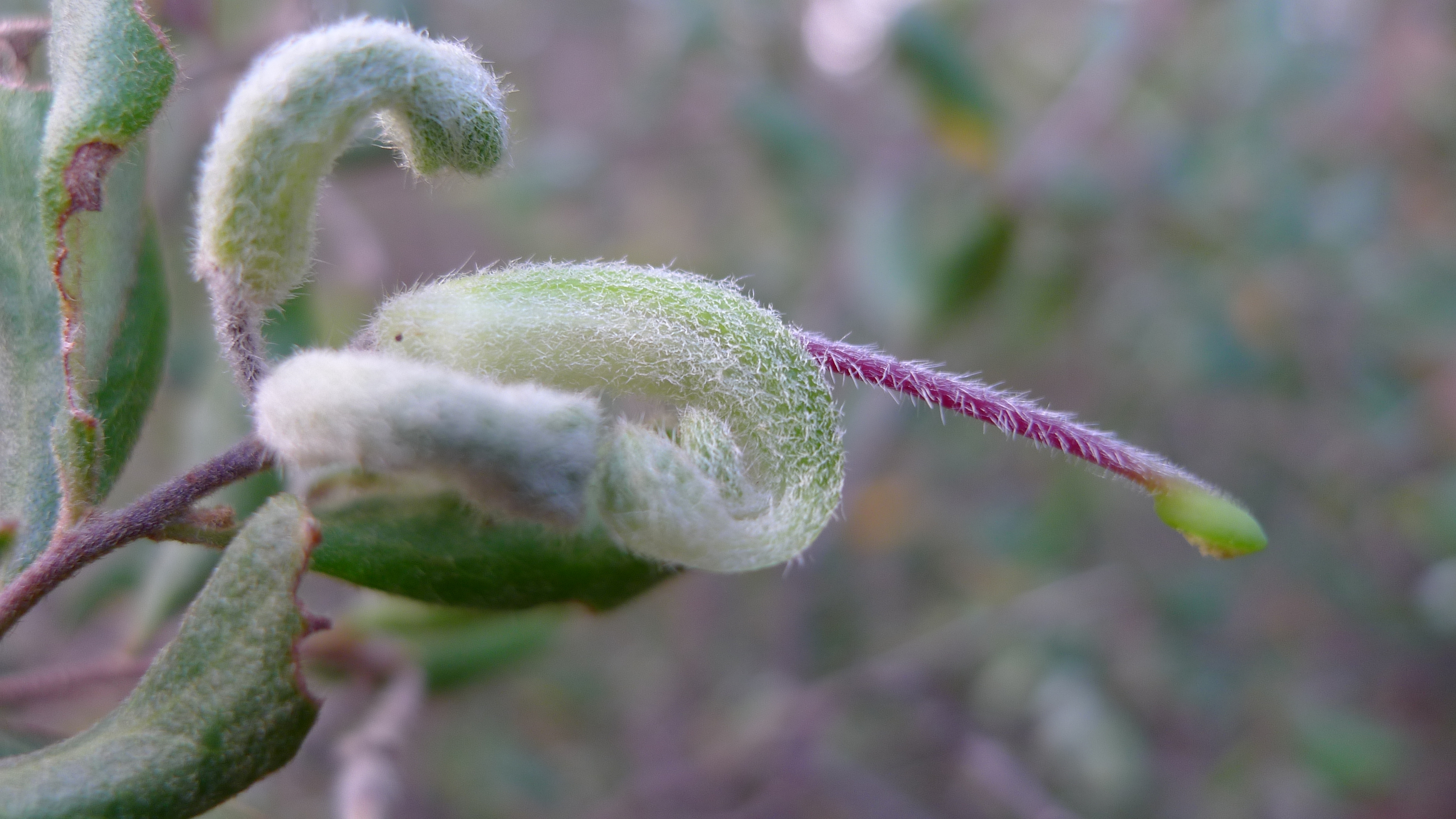 Green Spider Flower, Grevillea mucronulata, has a green flower with a hairy red style. Heathcote National Park, NSW Australia, May 2013.